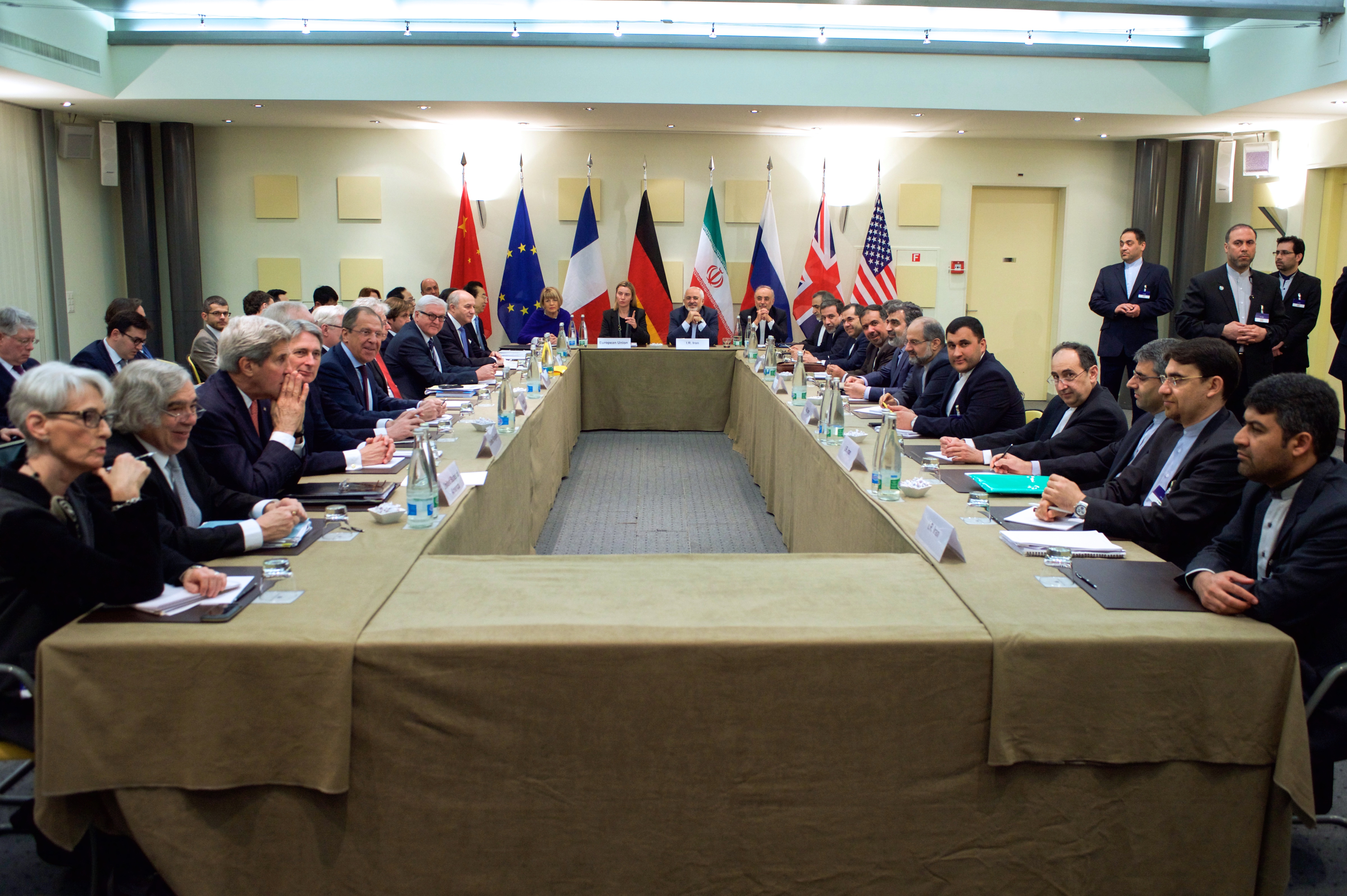 The ministers of foreign affairs and other officials from the P5+1 countries, the European Union and Iran meeting for a Comprehensive agreement on the Iranian nuclear program. John Kerry of the United States, Philip Hammond of the United Kingdom, Sergey Lavrov of Russia, Frank-Walter Steinmeier of Germany, Laurent Fabius of France, Wang Yi of China, Federica Mogherini of the European Union and Javad Zarif of Iran in the "Salle forum" of the Beau-Rivage Palace (Lausanne, Switzerland) on 30 March 2015.